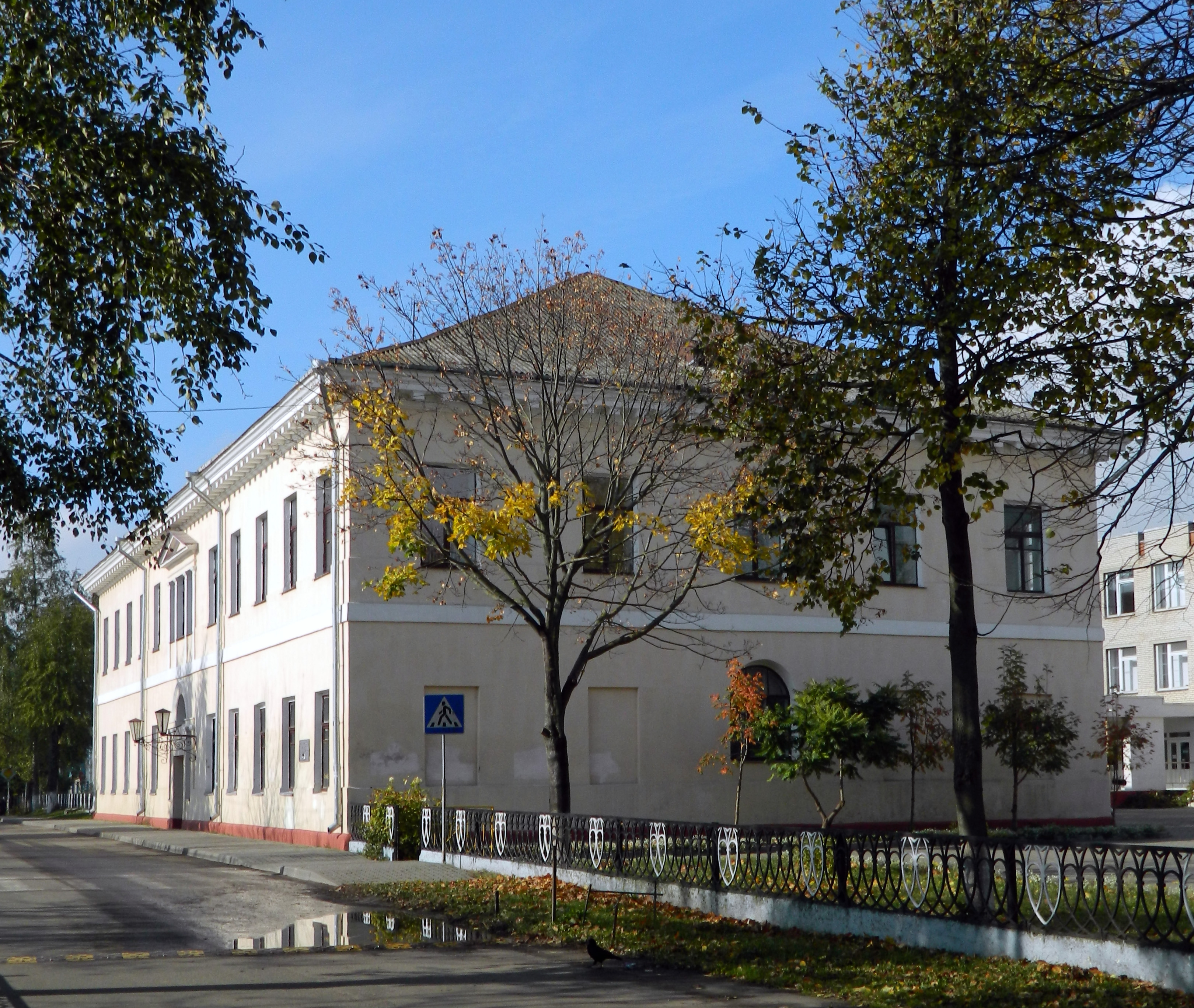 Slutsk Gymnasium 1 from the east.